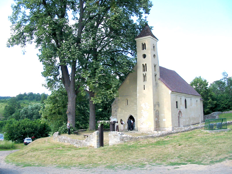 Catholic church in Mánfa. Photo taken by me on 21 June, 2003.